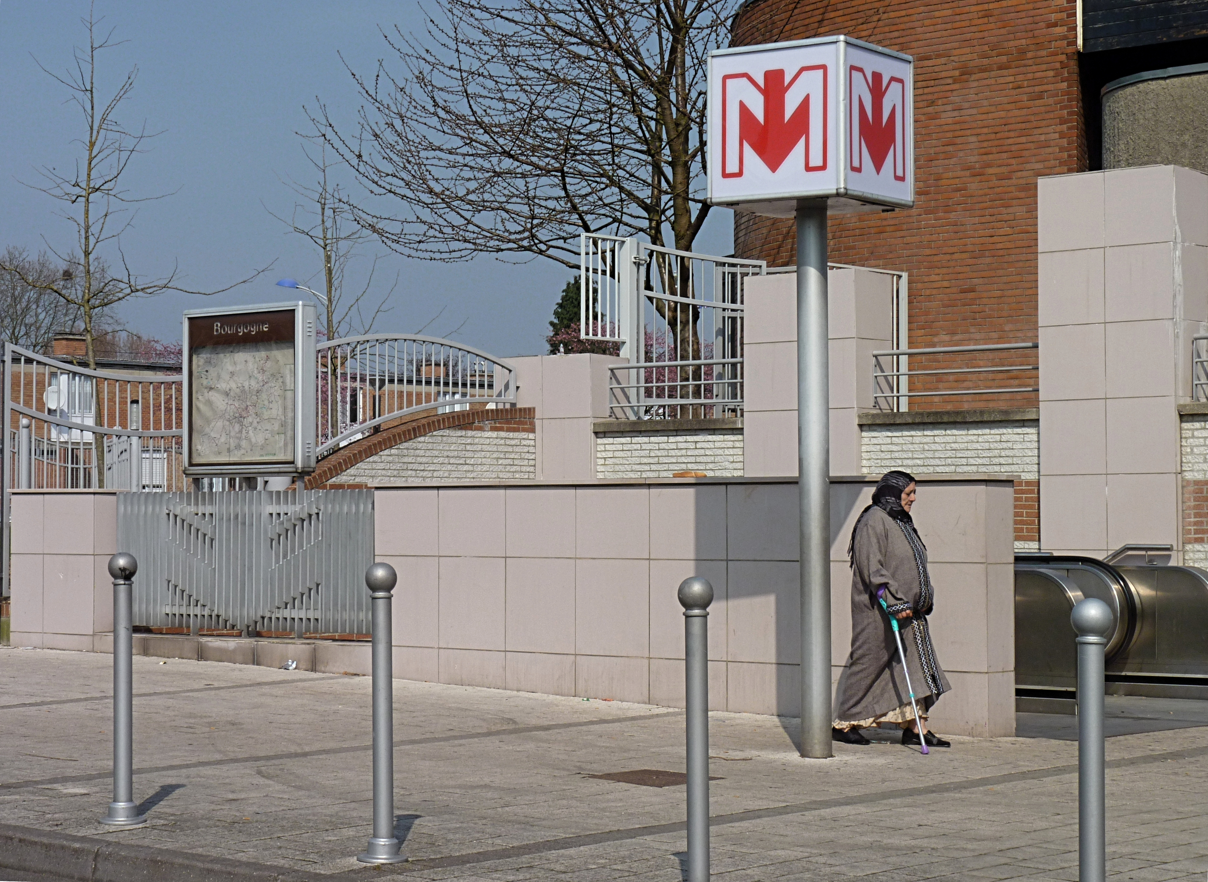 Subway station "Bourgogne" in Tourcoing, France.